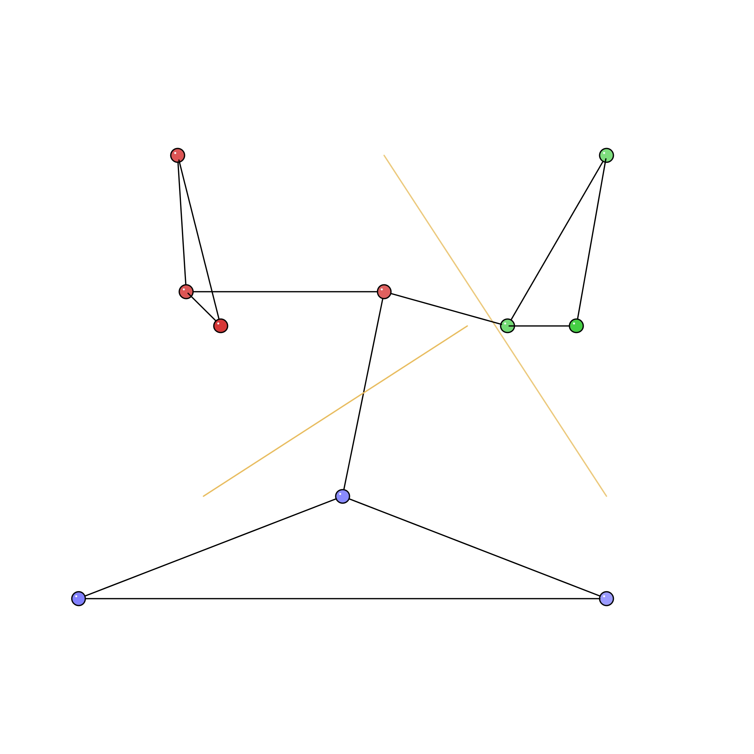 Sample network with yellow lines depicting the partitions that separate the network into 3 communities. Q=0.489583 .